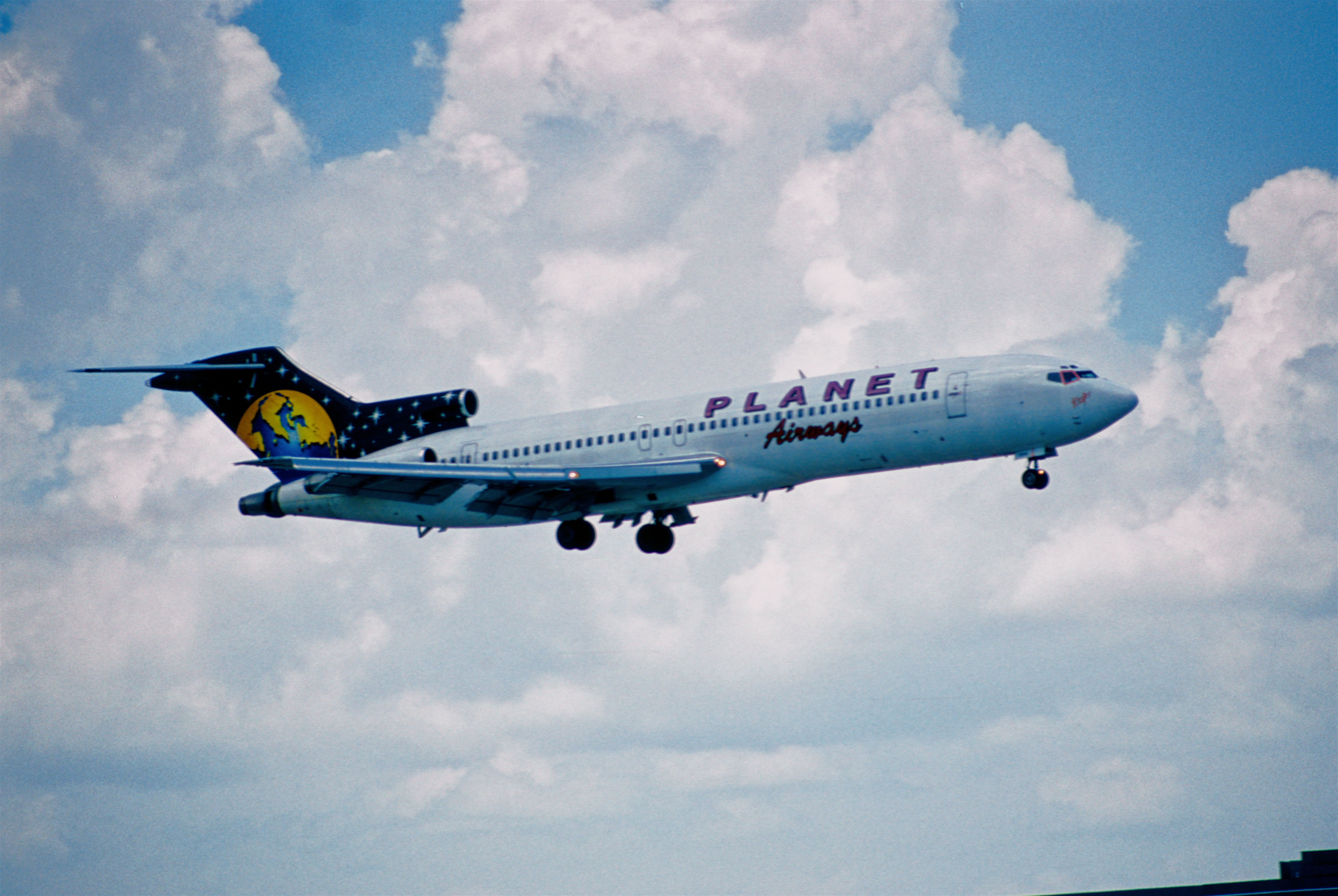 247cn - Planet Airways Boeing 727-223; N894AA@MIA;20.07.2003